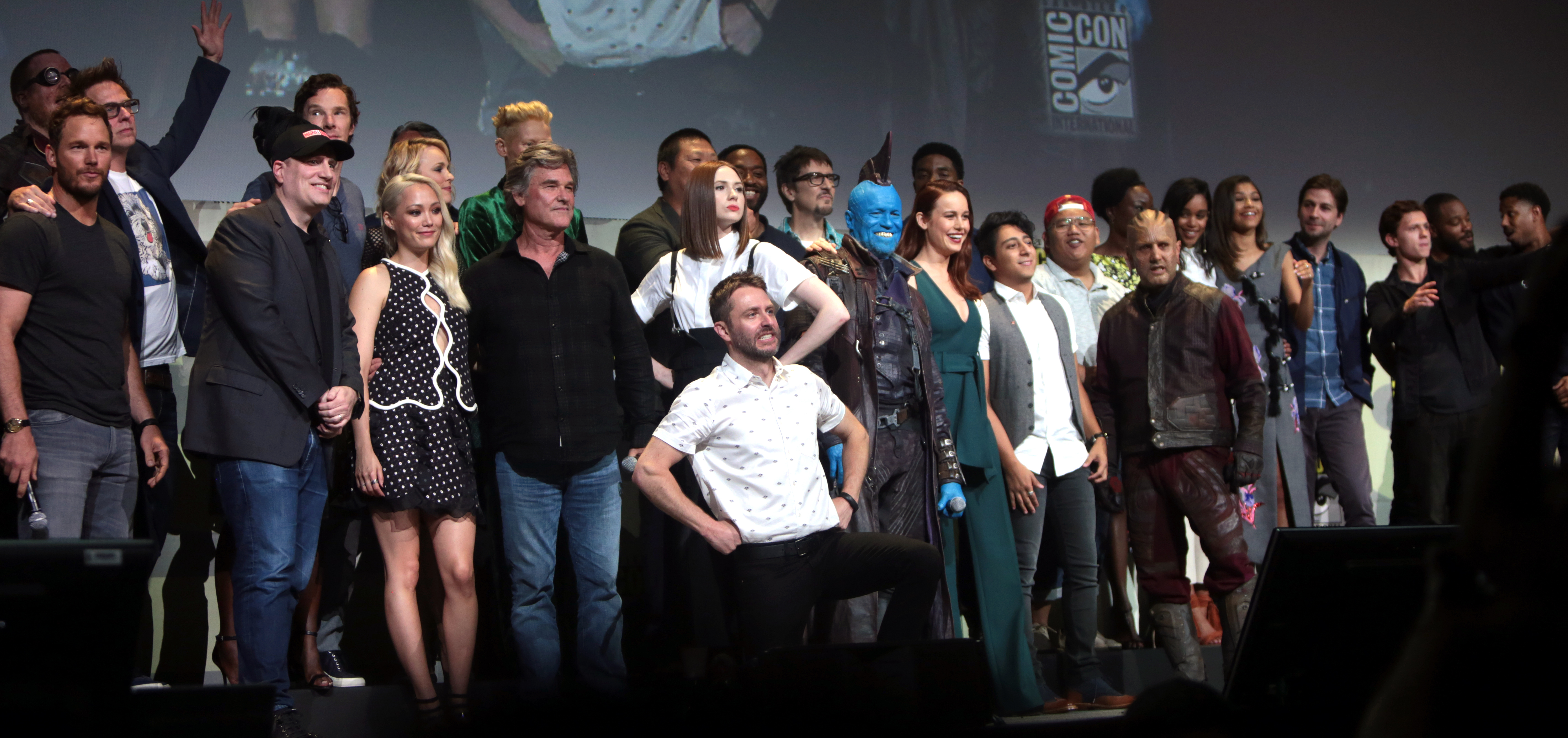 Marvel Studios panelists at the 2016 San Diego Comic Con International at the San Diego Convention Center in San Diego, California.